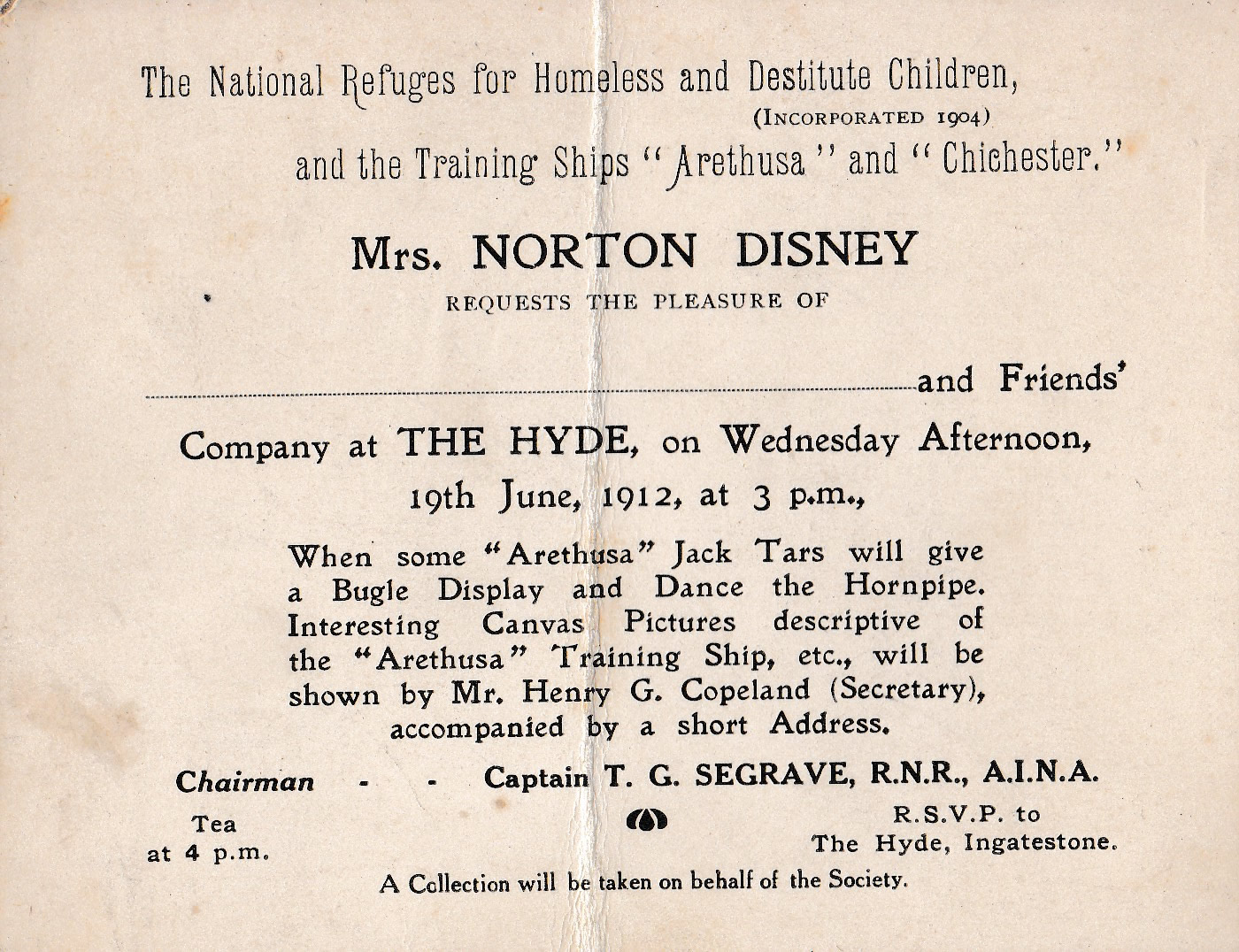 And invite to the Disney family residence "The Hyde" at Ingatestone to see Training Ship Arethusa jack tars dance the hornpipe along with information and talks about the ship and its services.